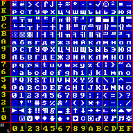 16×16 table of all octet values. Codepage not exactly CP866 because based on a font from console-tools adulterated with CP437. Letters Ёё were either hand-made or imported from elsewhere – they are missing from Cyr_a8x8.